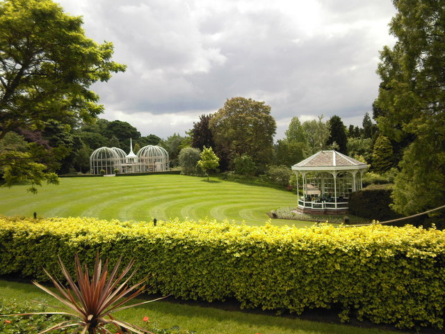 Birmingham Botanical Gardens. Looking towards the Bandstand and Aviary.